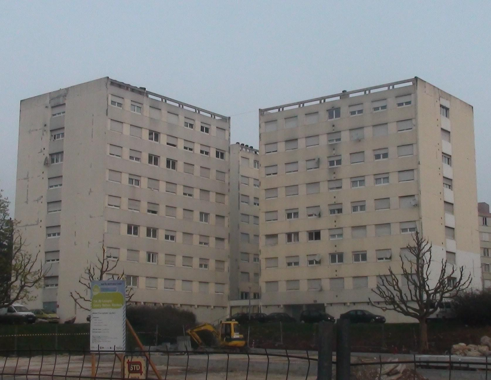 Buildings of Planoise, area of Besançon (France)